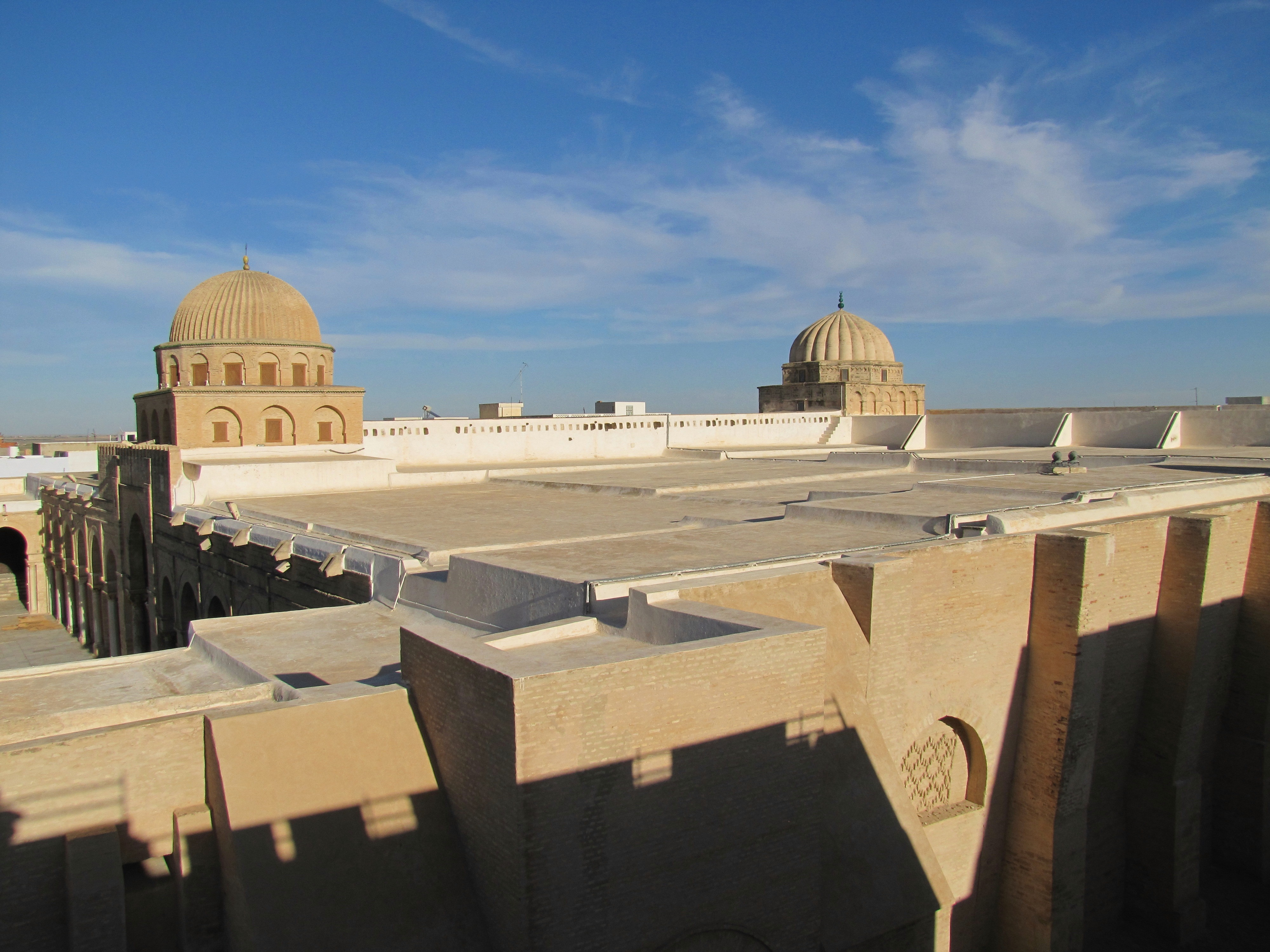 View showing the roof of the prayer hall of the Great Mosque of Kairouan, in Tunisia. The flat roof is crowned at the extremities of its axis by two ribbed cupolas.